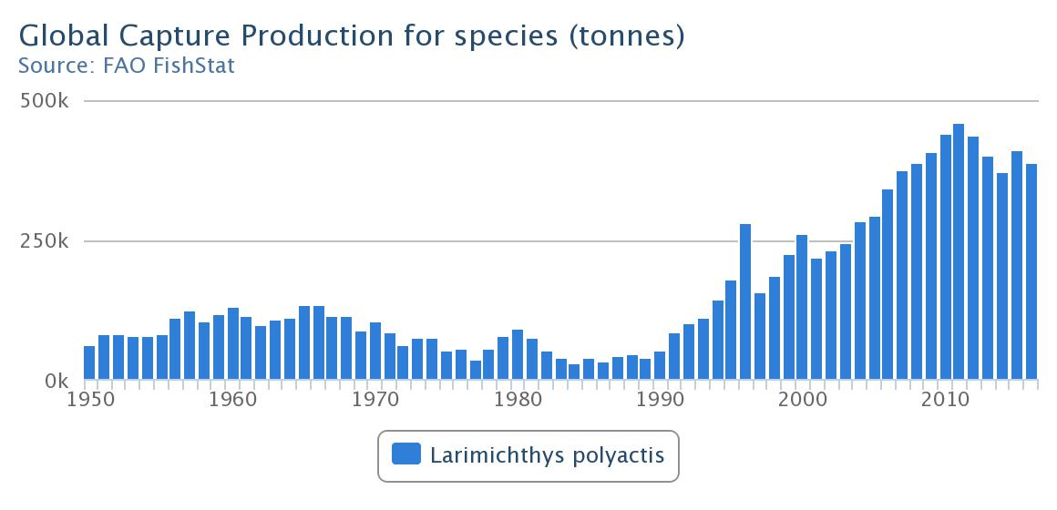 L. polyactis veiddur afli 1950-2016